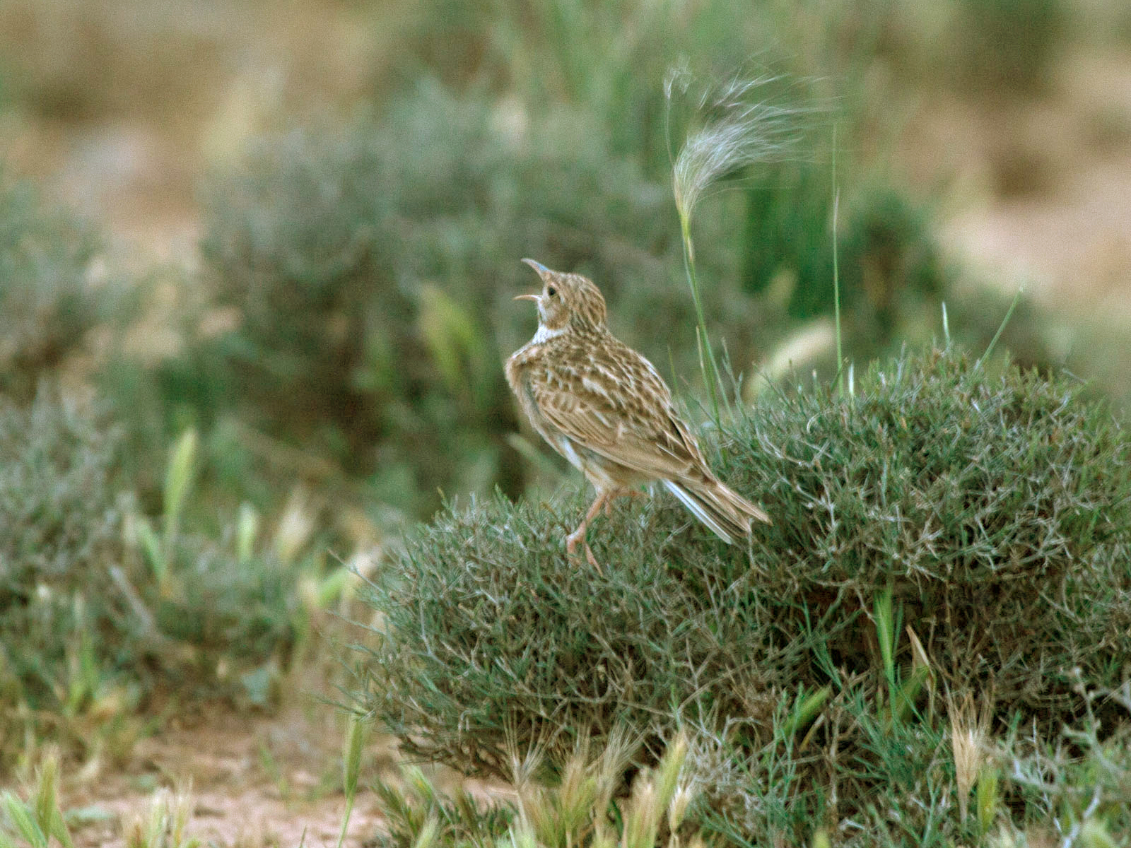 Dupont's Lark Chersophilus duponti singing at dawn, Morocco